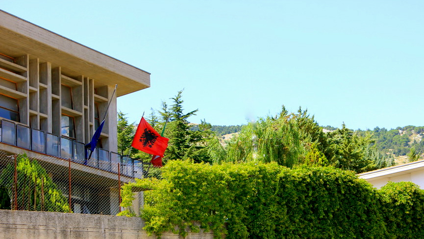 Municipality of Piana degli Albanesi (Province of Palermo), Sicily.